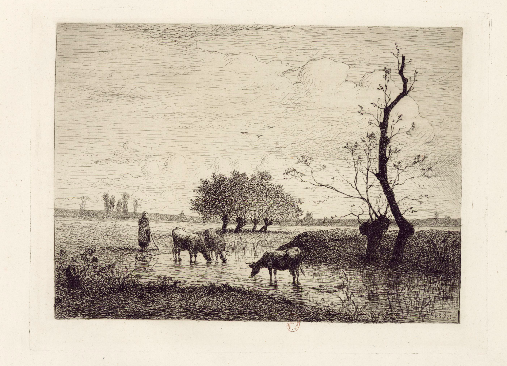 La Mare du Drac, Champagne, etching by Michel-Amédée Besnus, published by Alfred Cadart & Jules Luquet — F. 149.